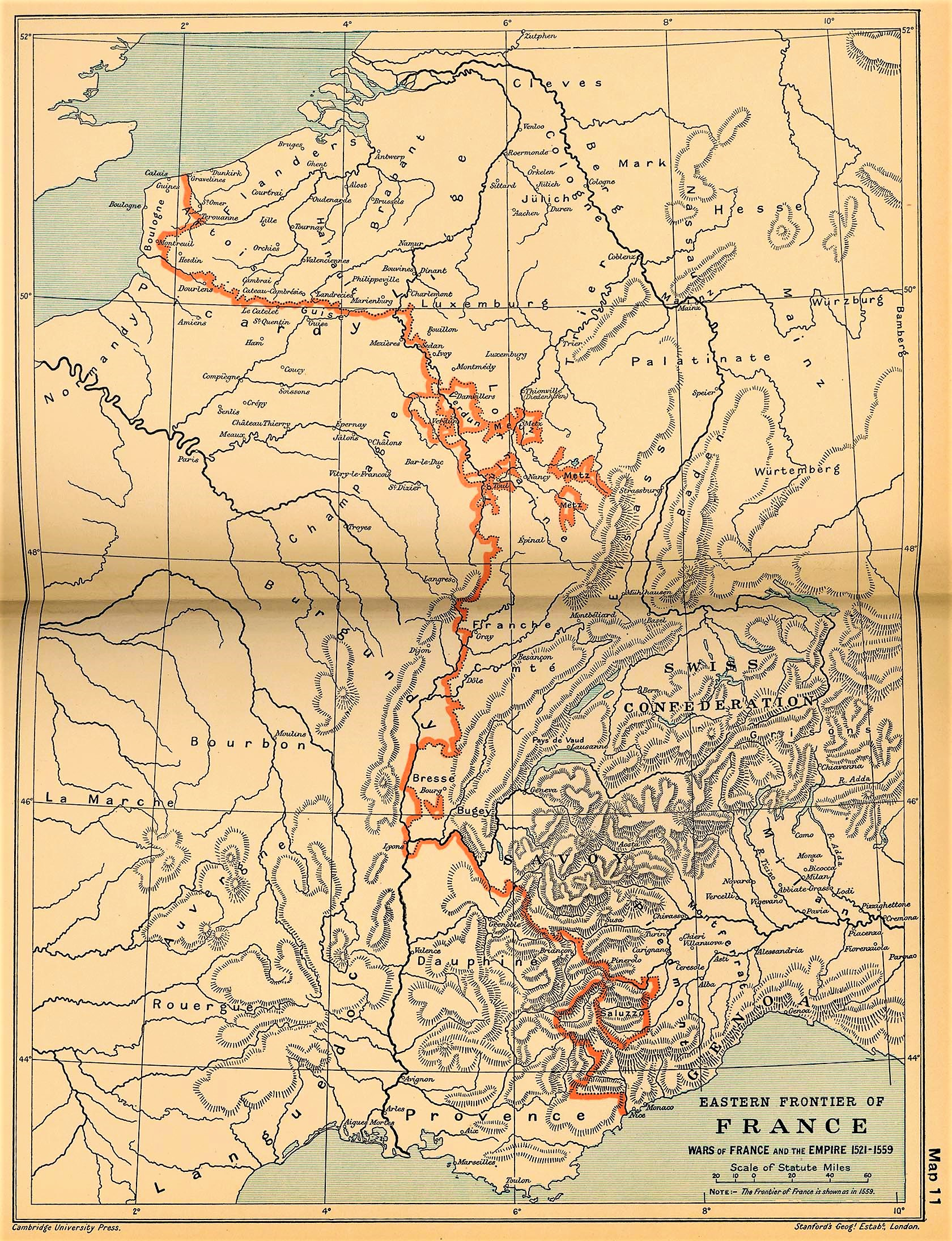 Eastern frontiers of France for the period 1521–59; line shown is the 1559 border.